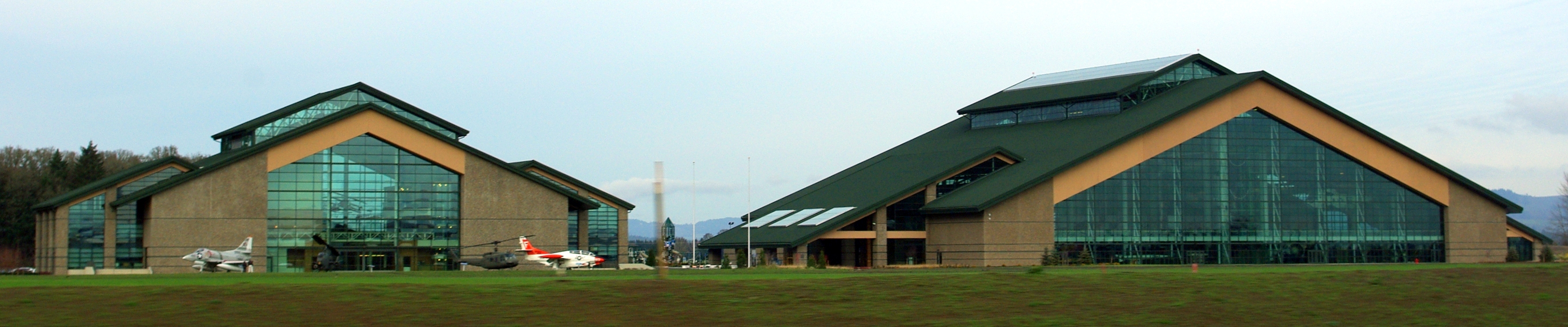 Evergreen Aviation & Space Museum in McMinnville, Oregon, USA